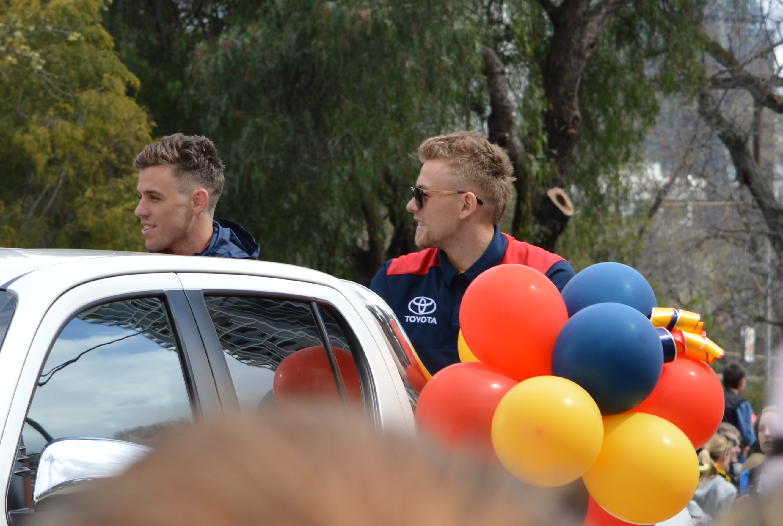 Paul Seedsman and Hugh Greenwood during the 2017 AFL Grand Final Parade.